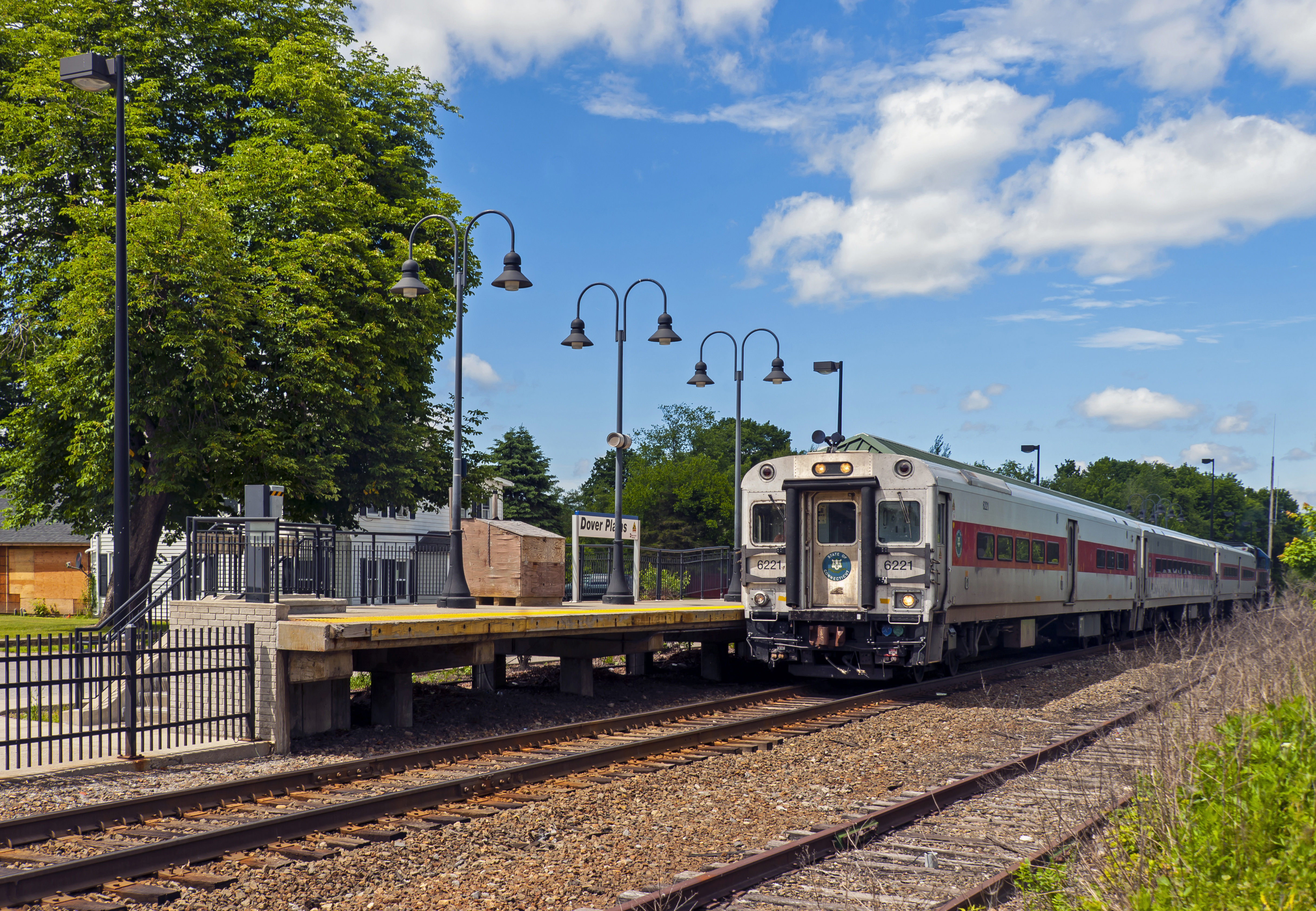 Southbound Metro-North RailroadHarlem Line train departing Dover Plains station